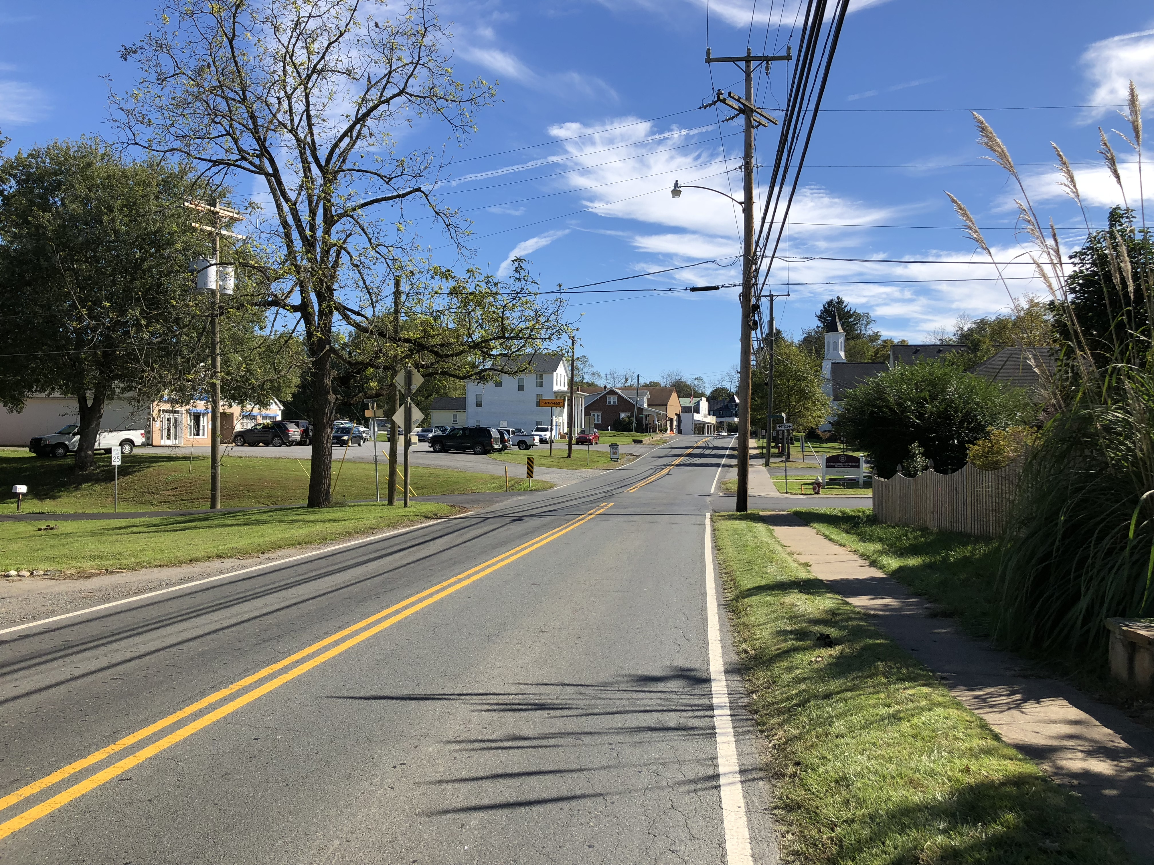 View east along Virginia State Route 7 Business (Colonial Highway) just west of Rogers Street in Hamilton, Loudoun County, Virginia